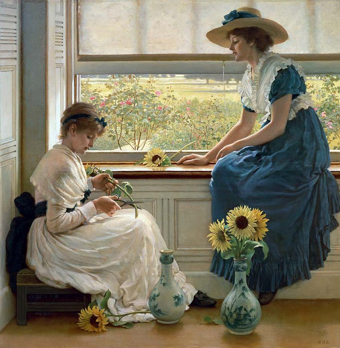 Sun and Moon flowers, oil on canvas, Guildhall Art Gallery, London